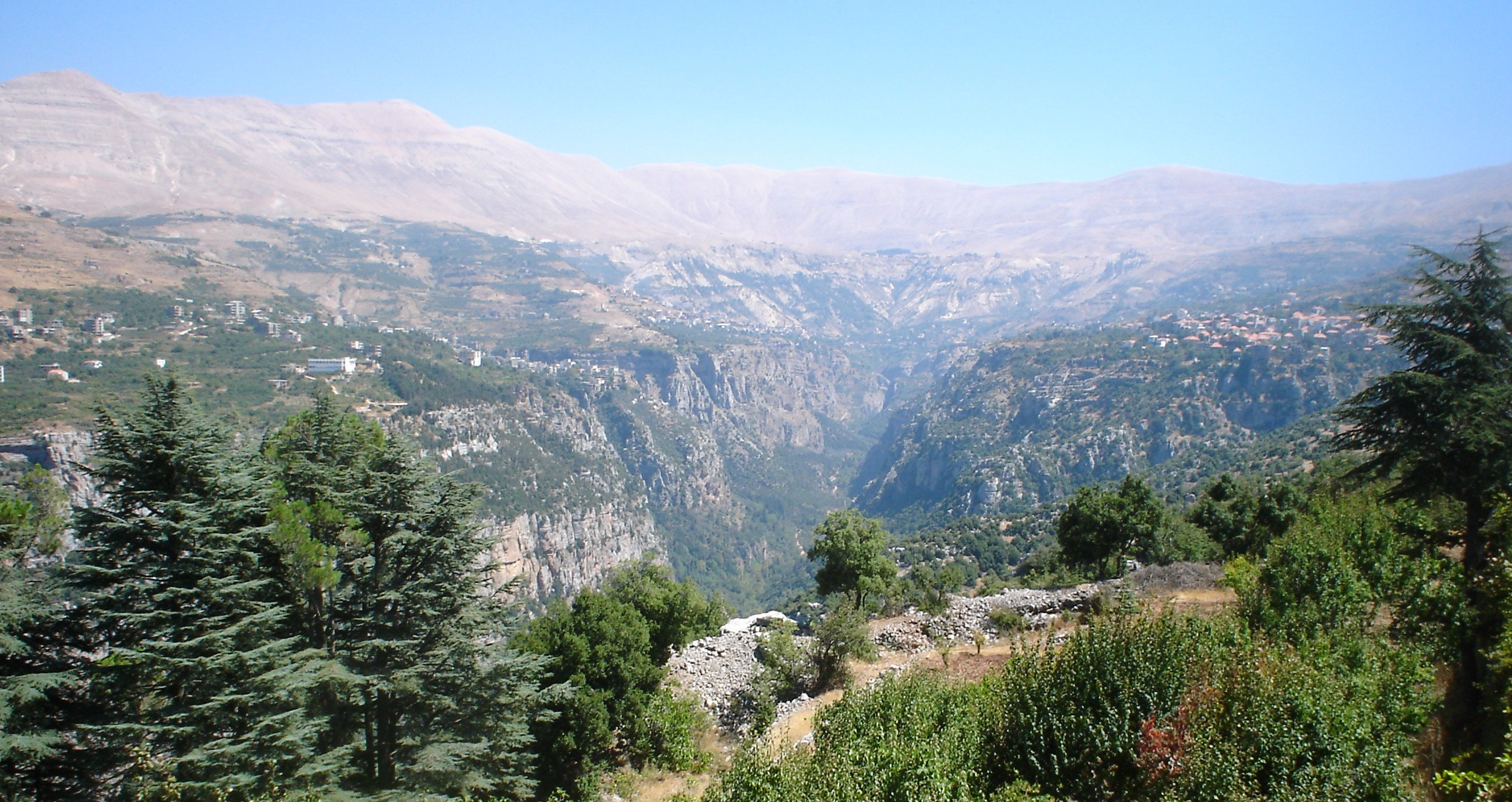 A picture of the Kadisha Valley, viewed from Dimane, Bsharri, Lebanon.